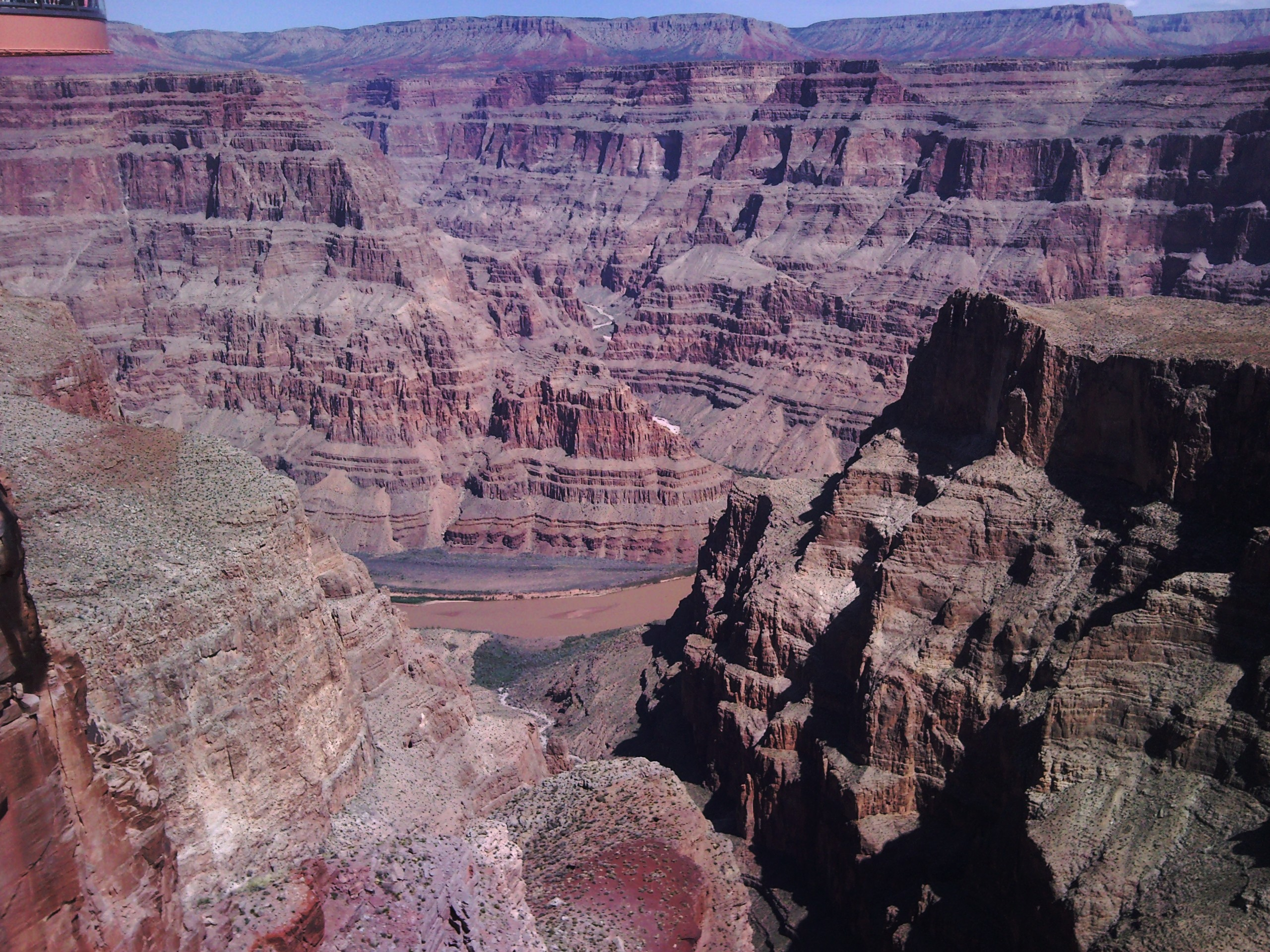 Grand Canyon West